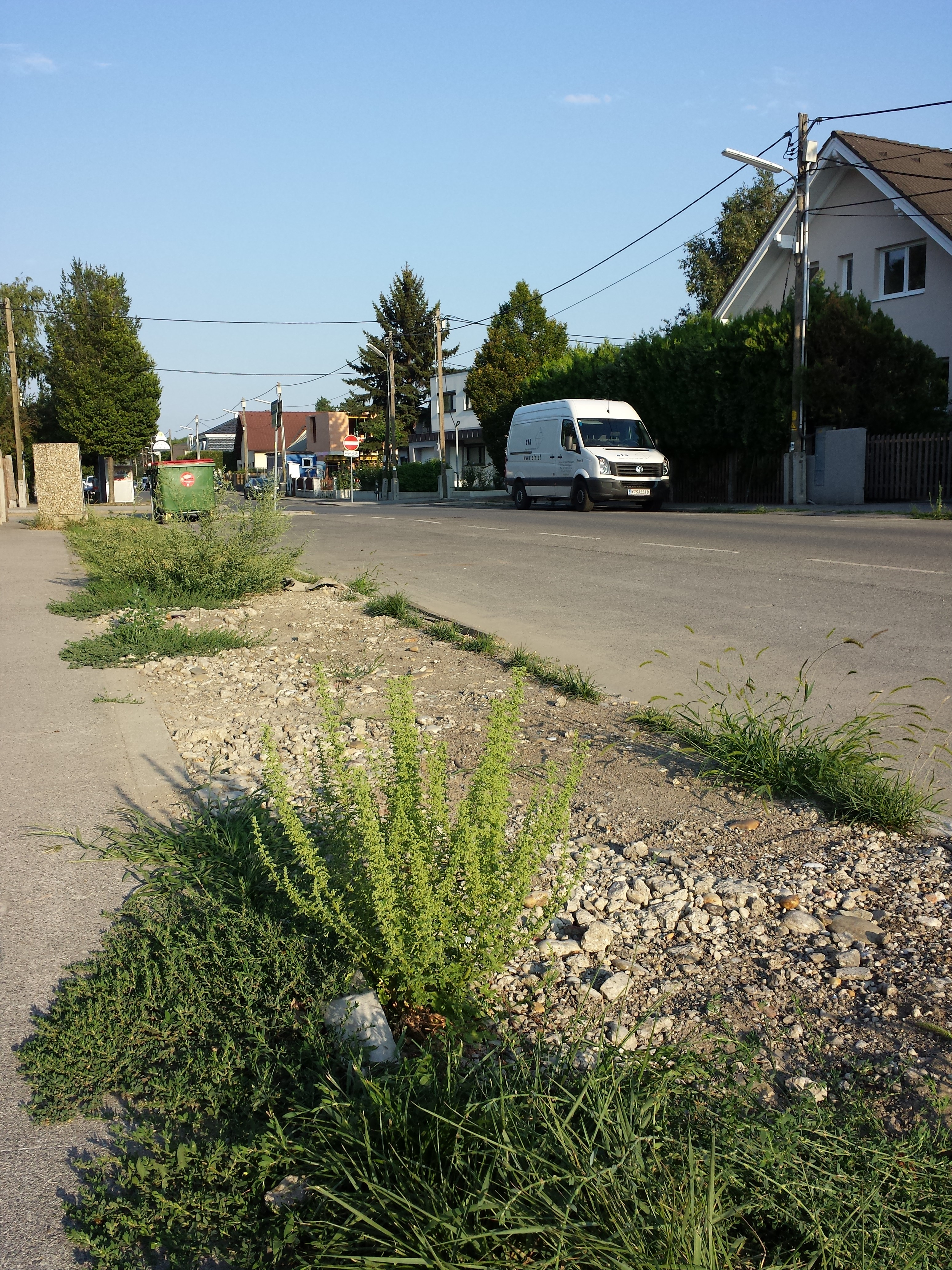 Habitat Taxonym: Dysphania botrys ss Fischer et al. EfÖLS 2008 ISBN 978-3-85474-187-9 Location: Bruckhaufen, Vienna-Floridsdorf - ca. 160 m a.s.l. Habitat: stony rudeal area